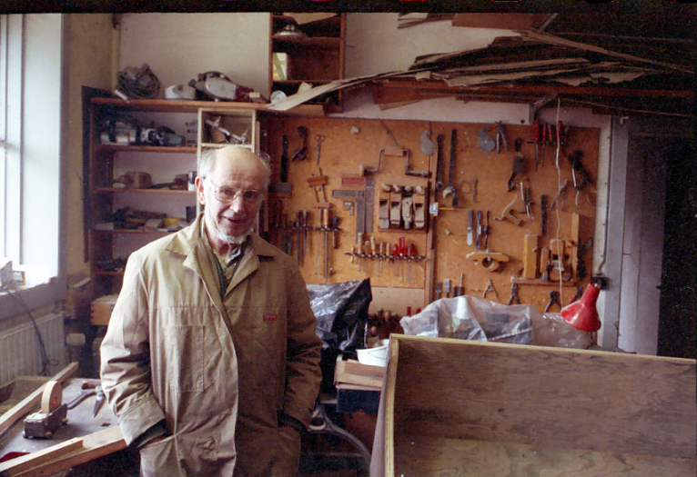 This file was made by B. M. Askholm, Please credit this: B. Askholm foto, 2006 An email to B. Mathias at baskholm(--) would be appreciated too.